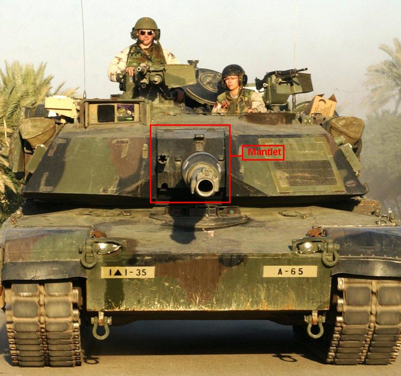 A U.S. Army M1A1 Abrams tank from A Company, Task Force 1st Battalion, 35th Armor Regiment, 2nd Brigade Combat Team, 1st Armored Division, commanded by Capt. William T. Cundy, patrols through Baghdad, Iraq, Nov. 13, 2003, during Operation Iraqi Freedom. The gun mantlet is identified in red.